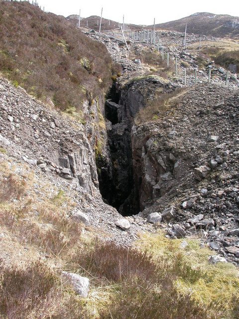 Mine stope An open stope on the Strontian Main Vein at the abandoned Corrantee lead Mine.